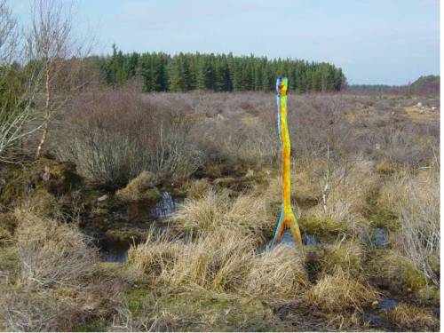 Examplary illustration of a ancient germanic god, with the name Pfahlgötze, in a swamp. Based on the image:CullodenMoor.jpg of Davehaem (3/2004)